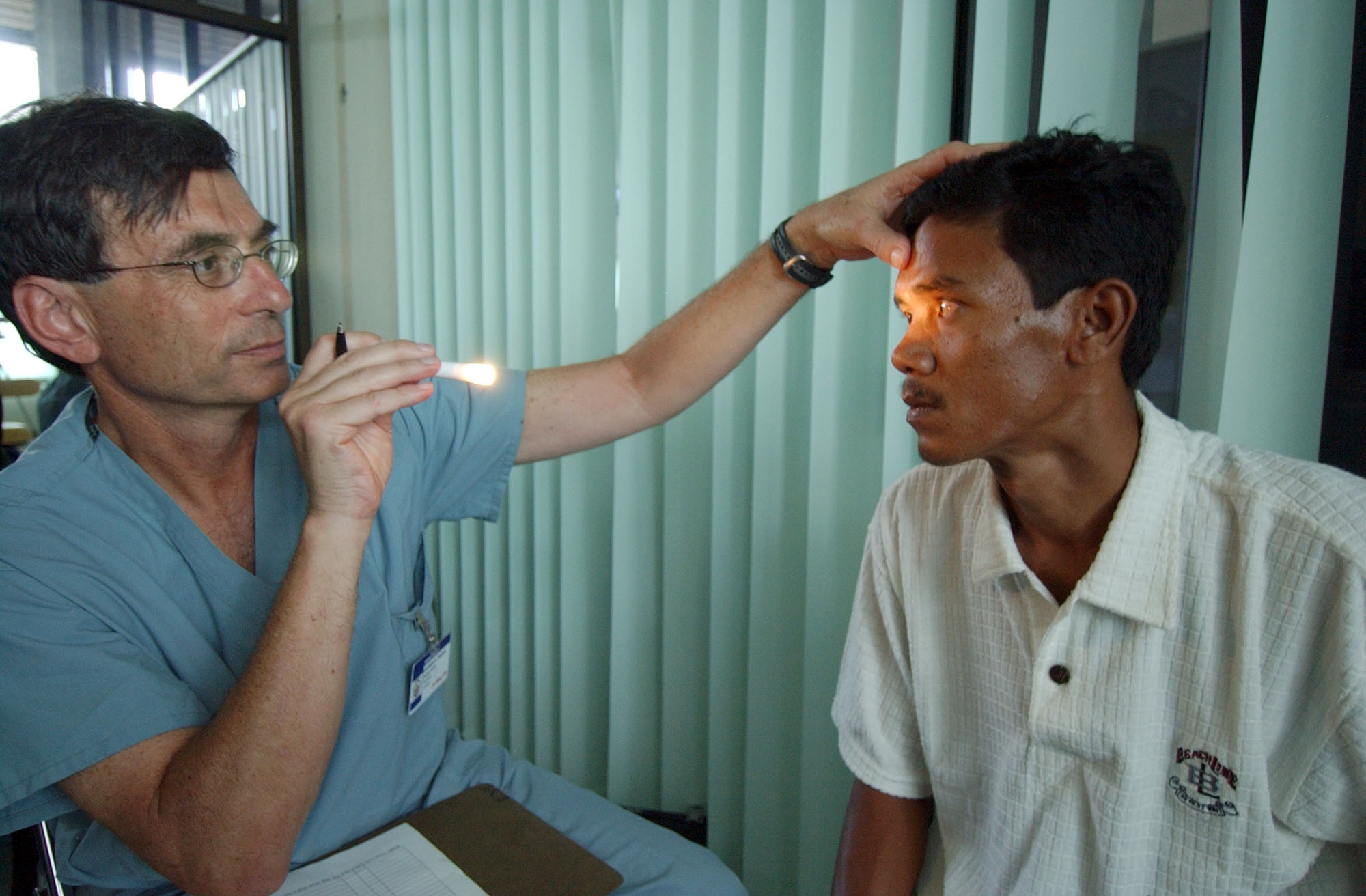 Banda Aceh, Indonesia (Feb 11, 2005) - Dr. Steve Prepas, MD, an ophthalmologist from the non-governmental organization "Project Hope" checks a patient’s eyes for cataracts at the University Hospital in Banda Aceh, Indonesia. Mercy is serving as an enabling platform to assist humanitarian operations ashore in ways that host nations and international relief organization find useful. Mercy is currently off the waters of Indonesia in support of Operation Unified Assistance, the humanitarian relief effort to aid the victims of the tsunami that struck Southeast Asia. U.S. Navy photo by Photographer's Mate 2nd Class Timothy Smith (RELEASED)